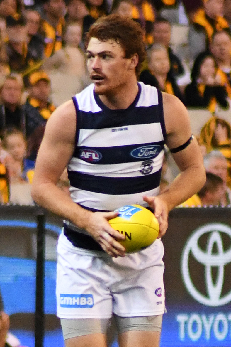 Gary Rohan of Geelong during the 2019 AFL round 5 match between Hawthorn and Geelong at the Melbourne Cricket Ground on Monday, 22 April 2019 in Melbourne, Victoria.